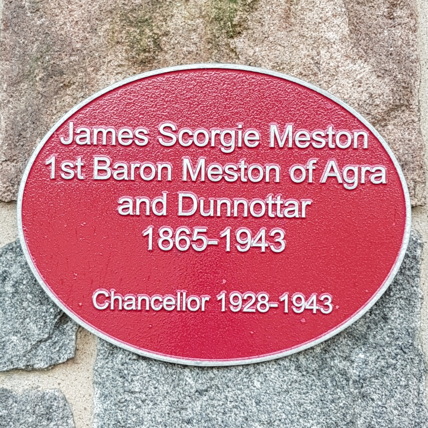 Commemorative plaque to James Scorgie Meston